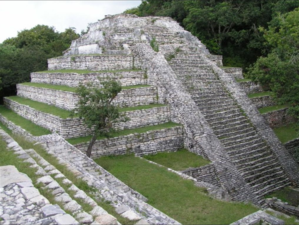 Structure 7-Tenam Puente.JPG